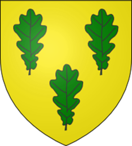 The coat of arms of the fictional House Oakheart from the novel A song of Ice and Fire by George R. R. Martin.